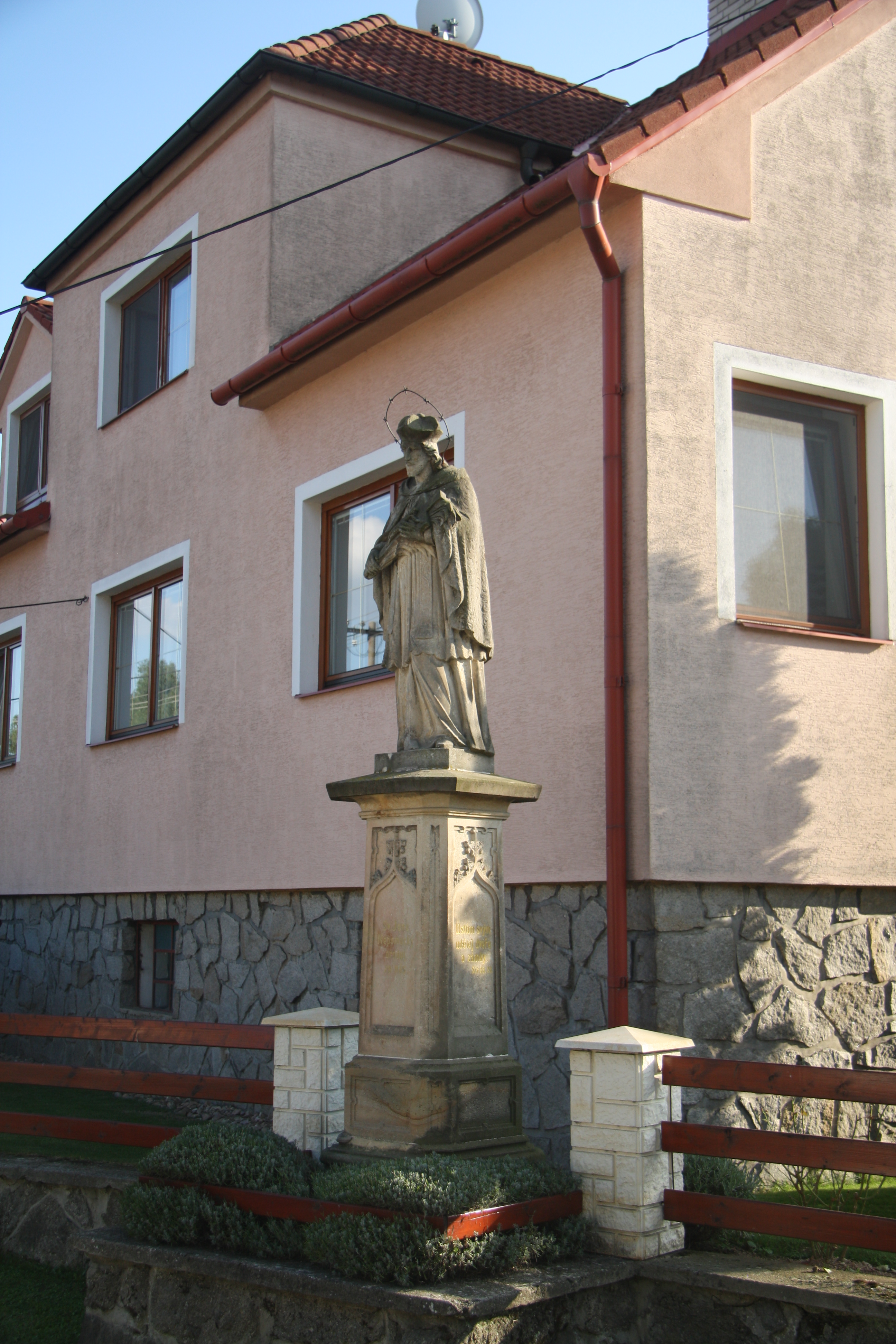 Statue in Holubí Zhoř, Velká Bíteš, Žďár nad Sázavou District.